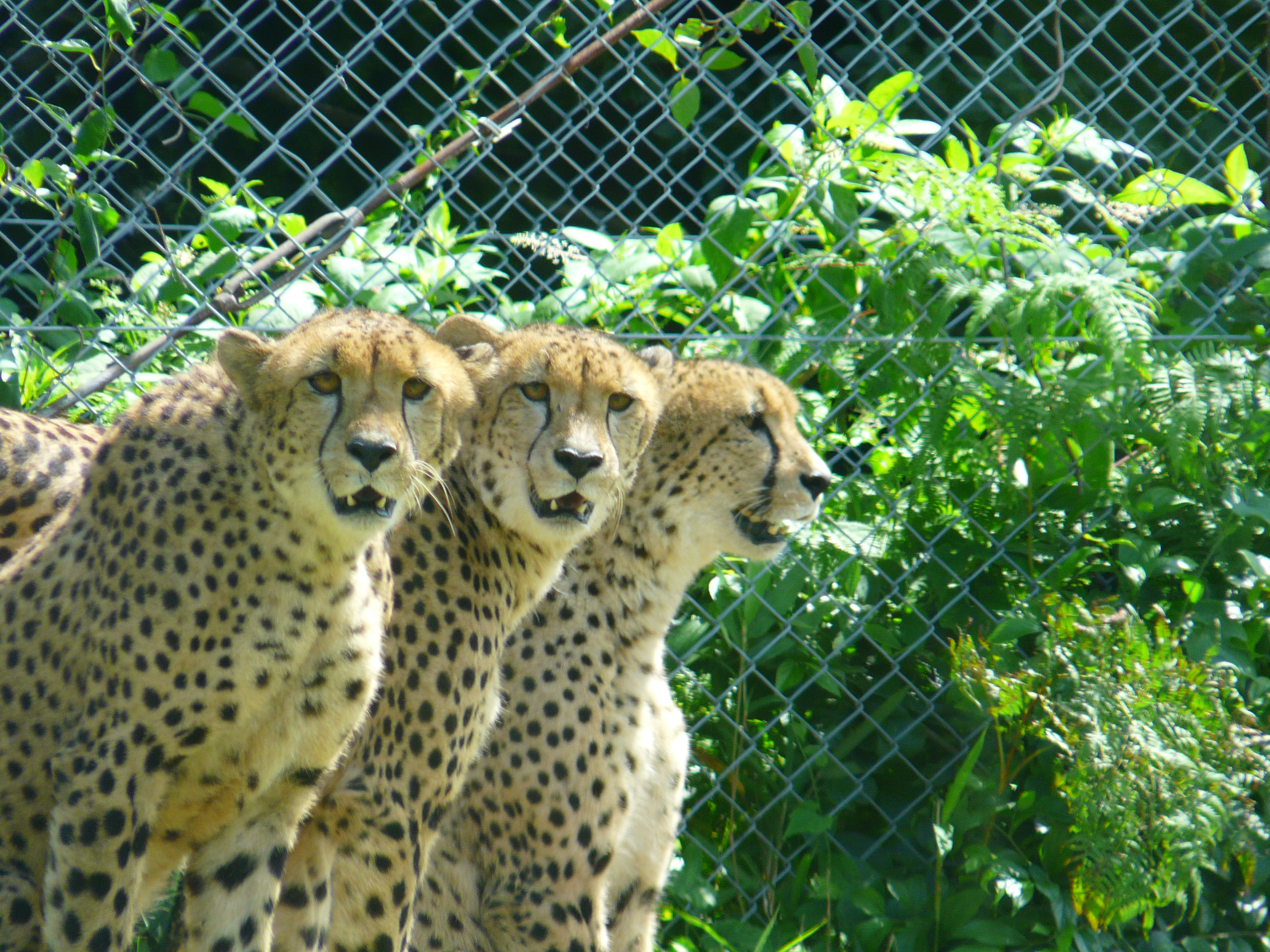 Kyushu African Safari, Usa-city, Oita-pref, Japan